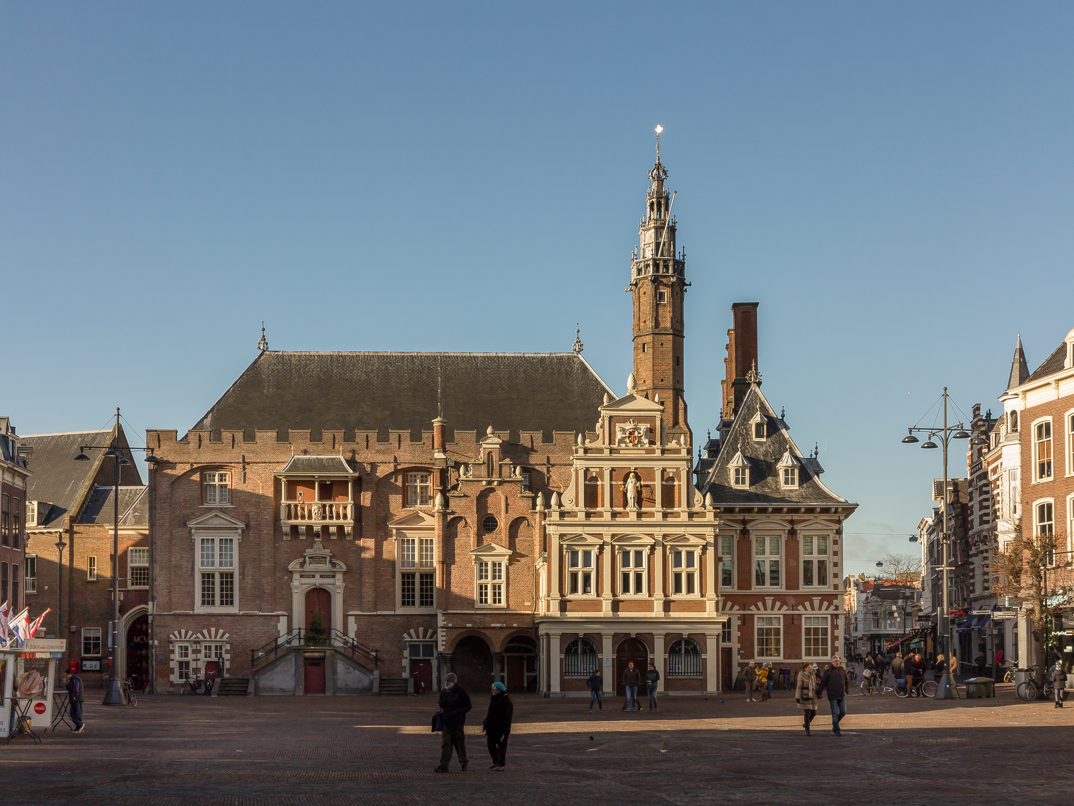 Haarlem, townhall